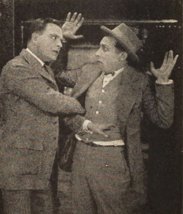 Still from the American comedy film A Man of Action (1923), on page 340 of the January 13, 1923 Exhibitor's Trade Review.